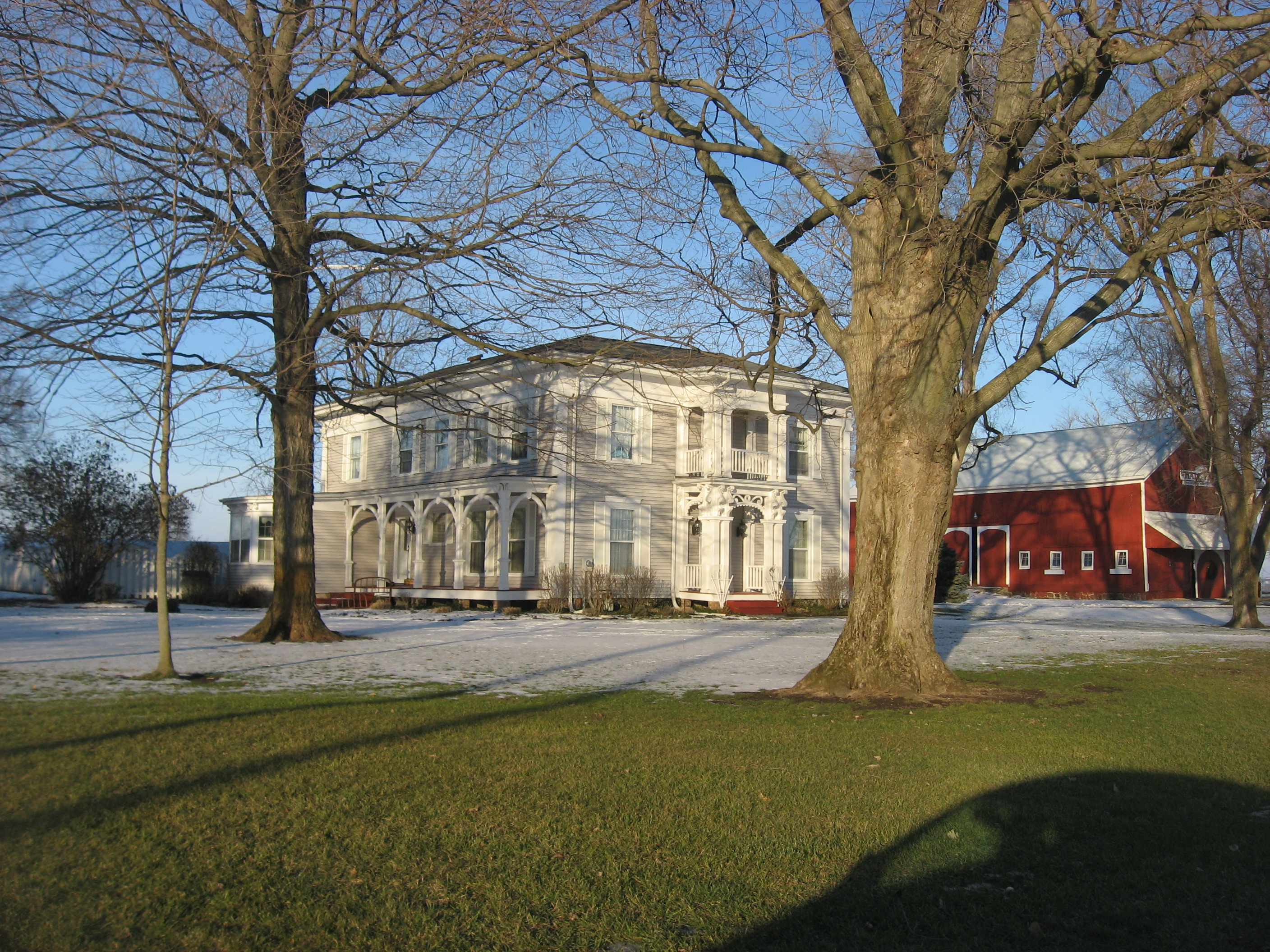 The farmhouse and barn at the Hall Farm, located on the northeastern corner of the junction of N400W and W600N at Clunette in Prairie Township, Kosciusko County, Indiana, United States. Built in 1871, the farmhouse and barn are listed together on the National Register of Historic Places.